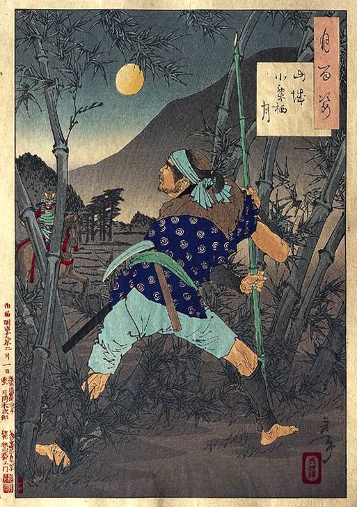 The moon of Ogurusu in Yamashiro (Yamashiro Ogurusu no tsuki)